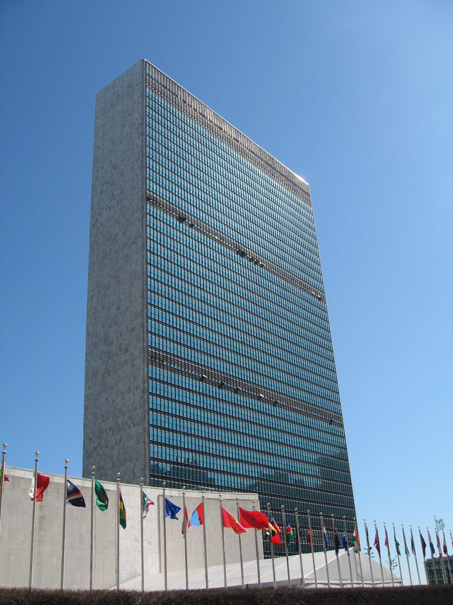 UN HQ NYC